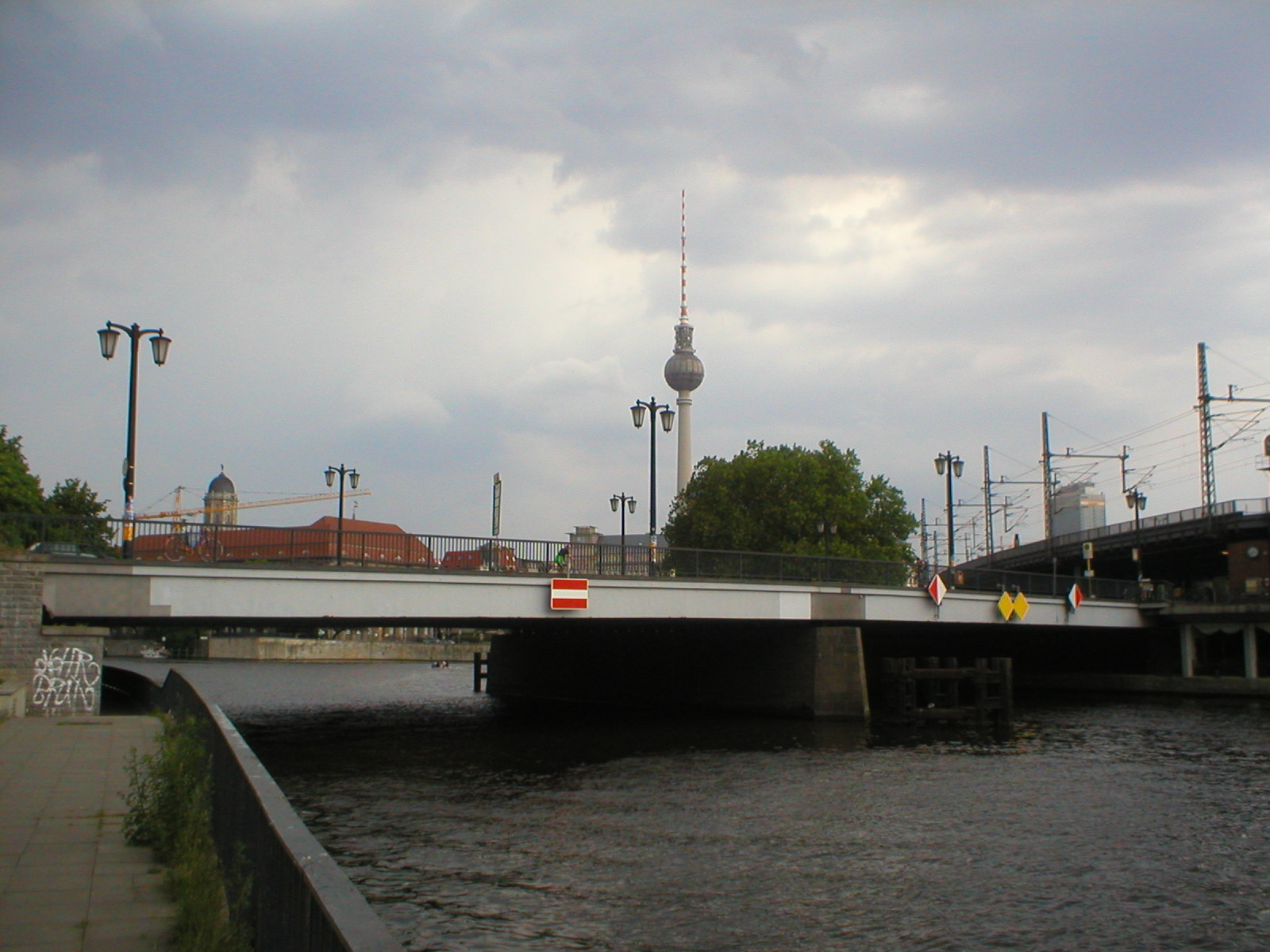 Description: The Jannowitzbrücke in Berlin Date: June 25, 2005 License: GFDL